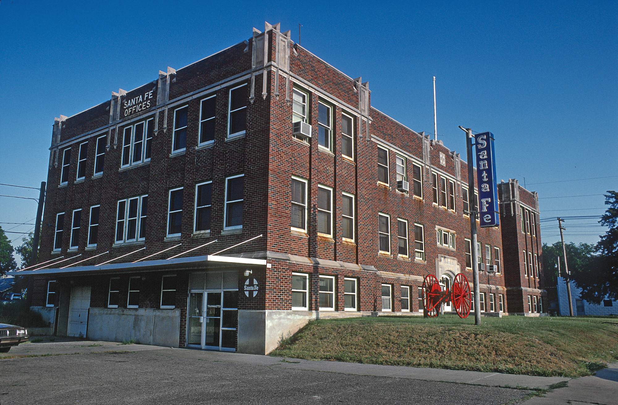 A Roger Puta Photograph